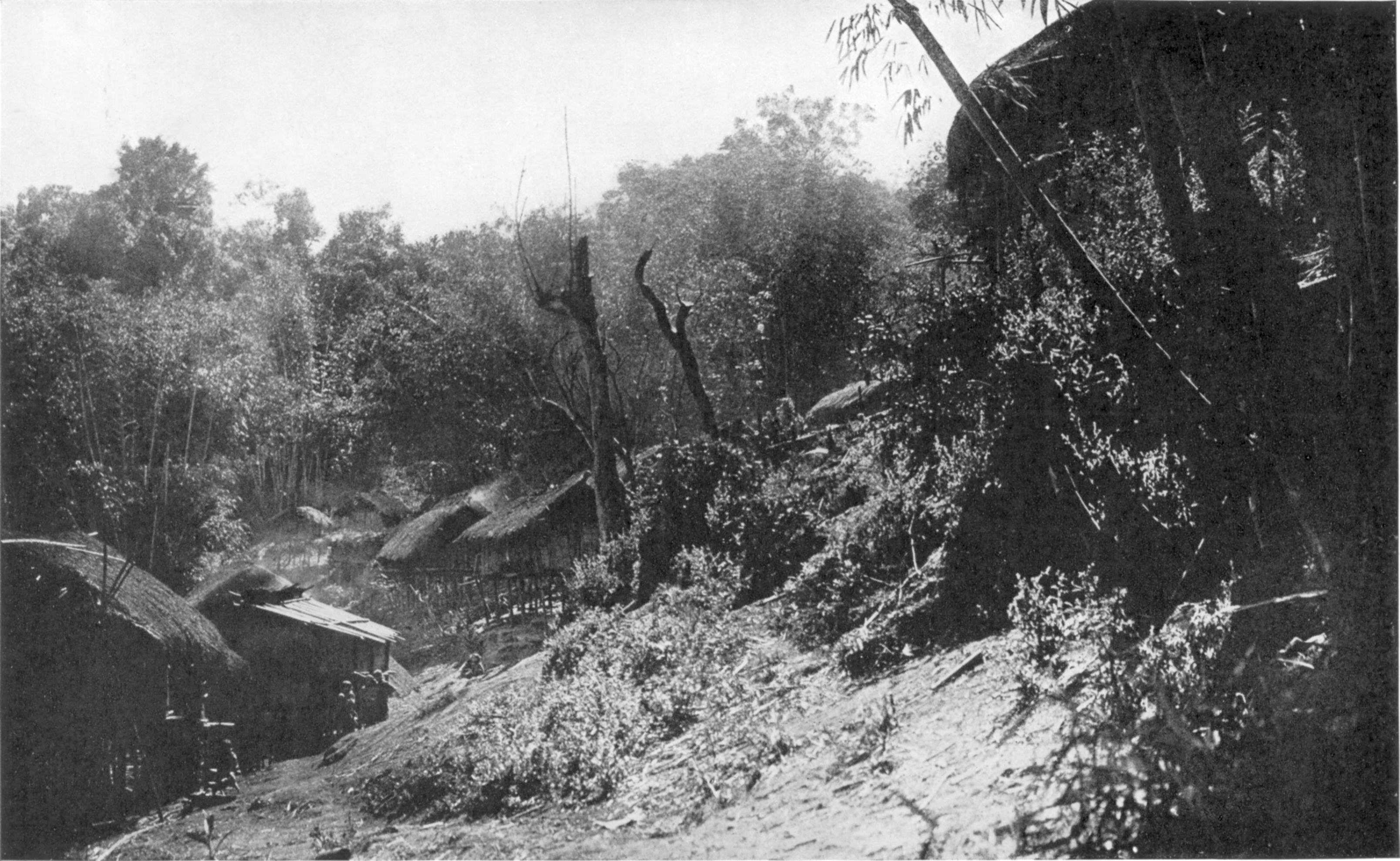 The entrance to Kiaw-Ku, a Burmese village temporarily abandoned because: Of CHOLERA The Red Karen villages are usually far up in the hills and as much off the main roads as possible. They are also surrounded by close fences of live bush growth, reinforced by dry thorn branches and stakes.